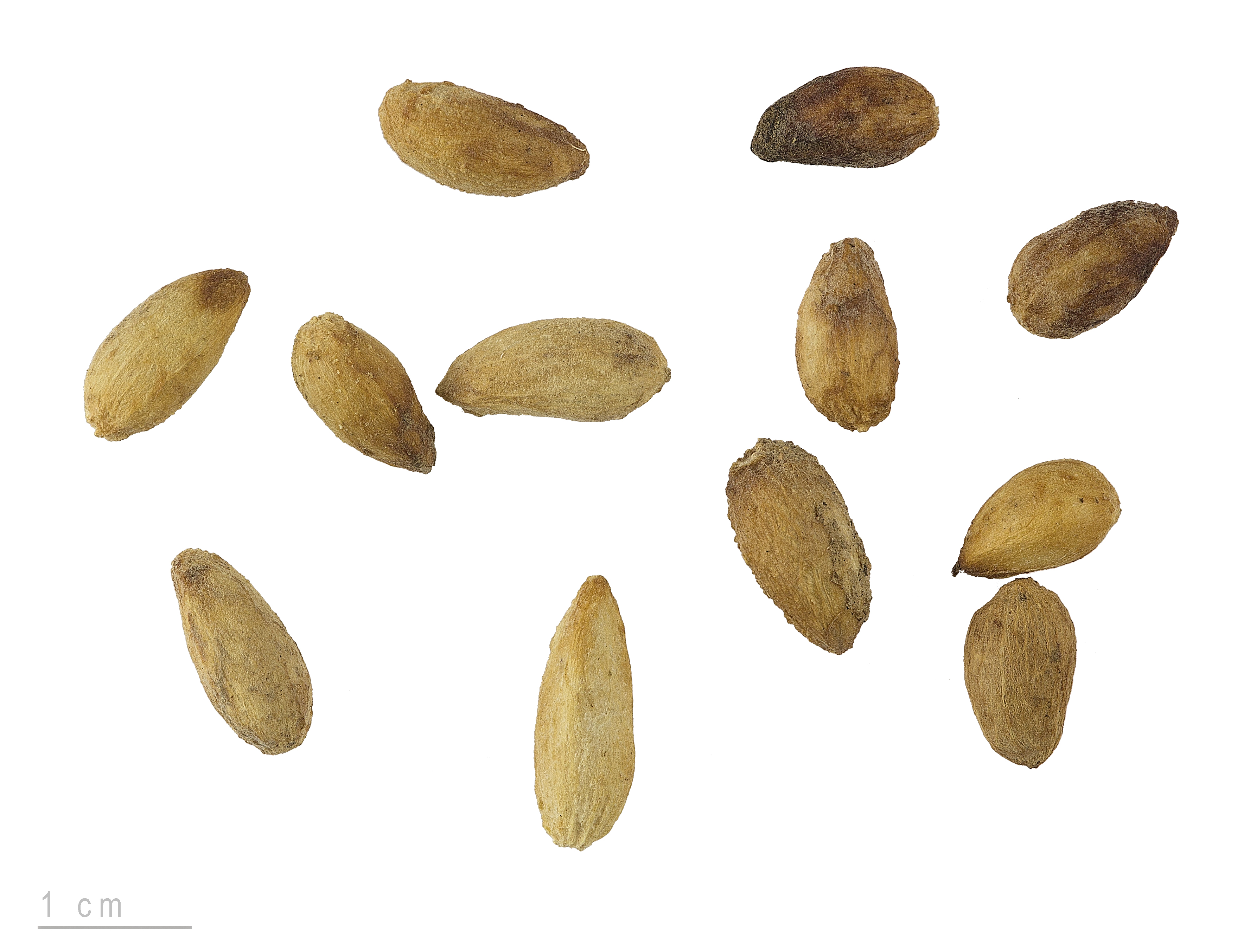 Neem , fruits and seeds